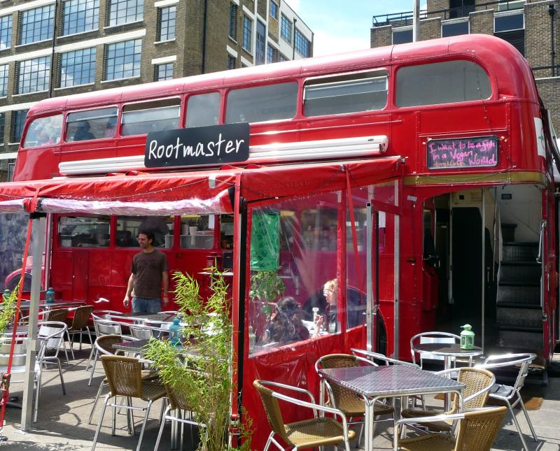 The Vegan Bus